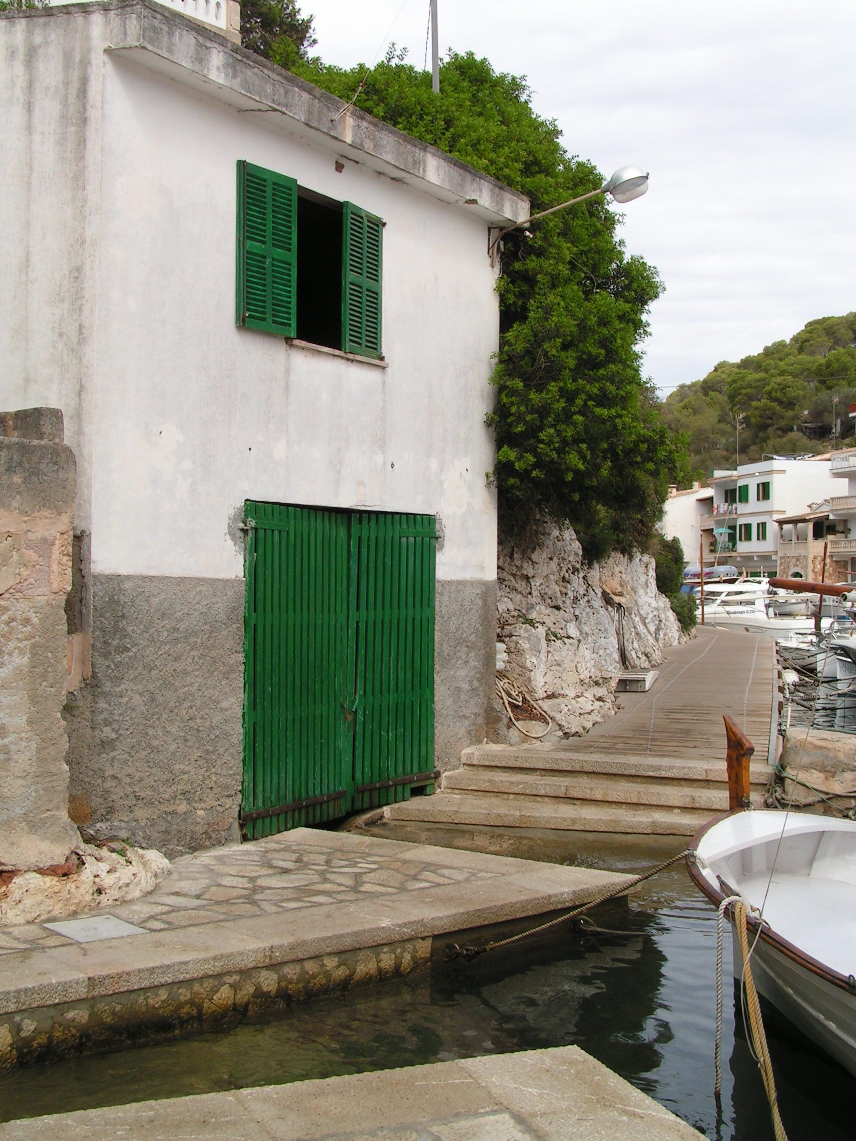 Cala Figuera, Mallorca, Spain, traditional fisherman's house